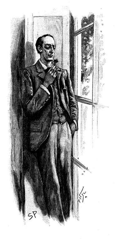 Sherlock Homes holding a rose, from The Naval Treaty. The illustration appeared in The Strand Magazine in October, 1893, and was captioned "WHAT A LOVELY THING A ROSE IS. "Our highest assurance of the goodness of Providence seems to me to rest in the flowers. All other things, our powers, our desires, our food, are all really necessary for our existence in the first instance. But this rose is an extra. Its smell and its colour are an embellishment of life, not a condition of it."